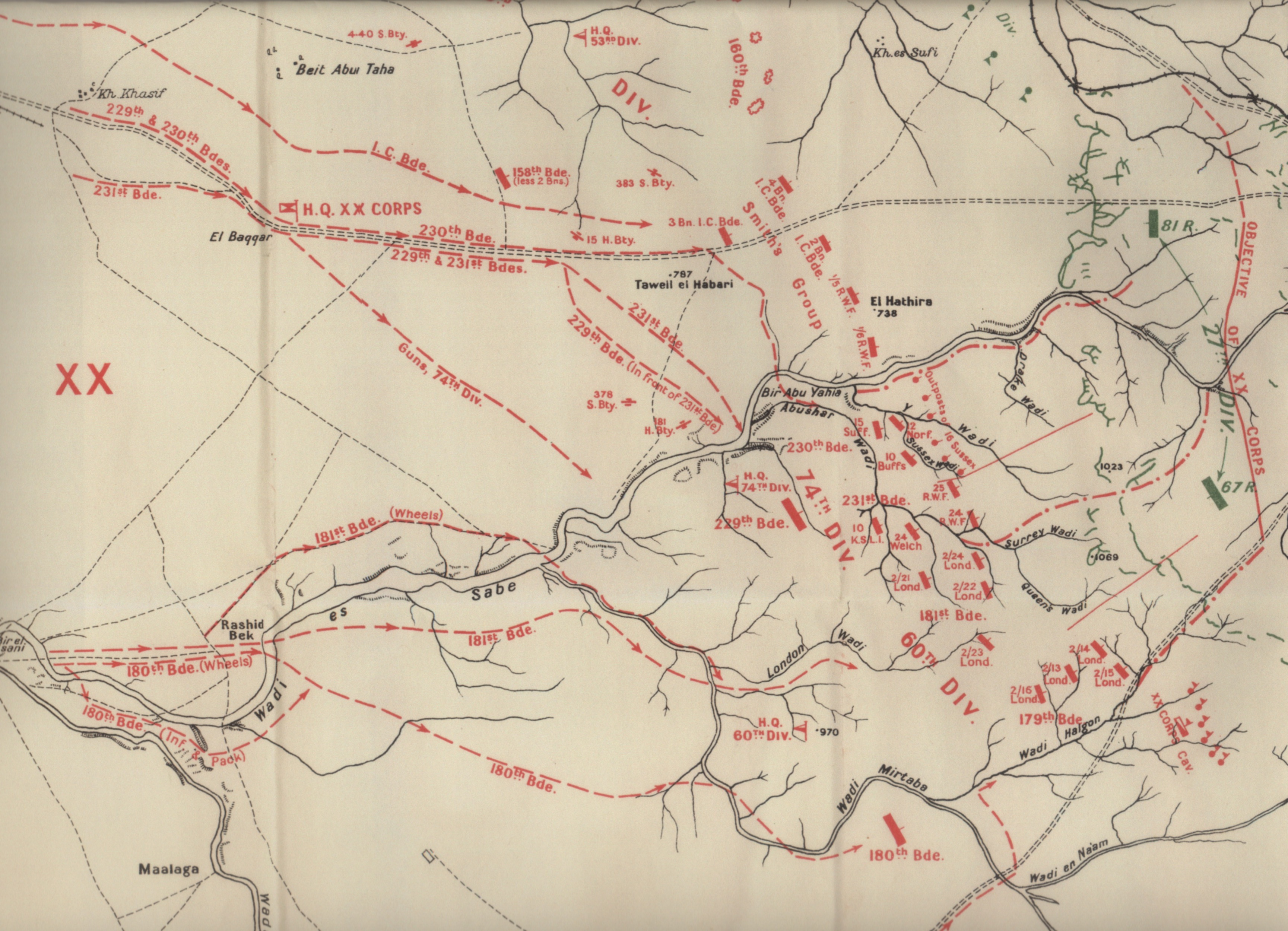 Falls Map 5 Detail of infantry approach marches